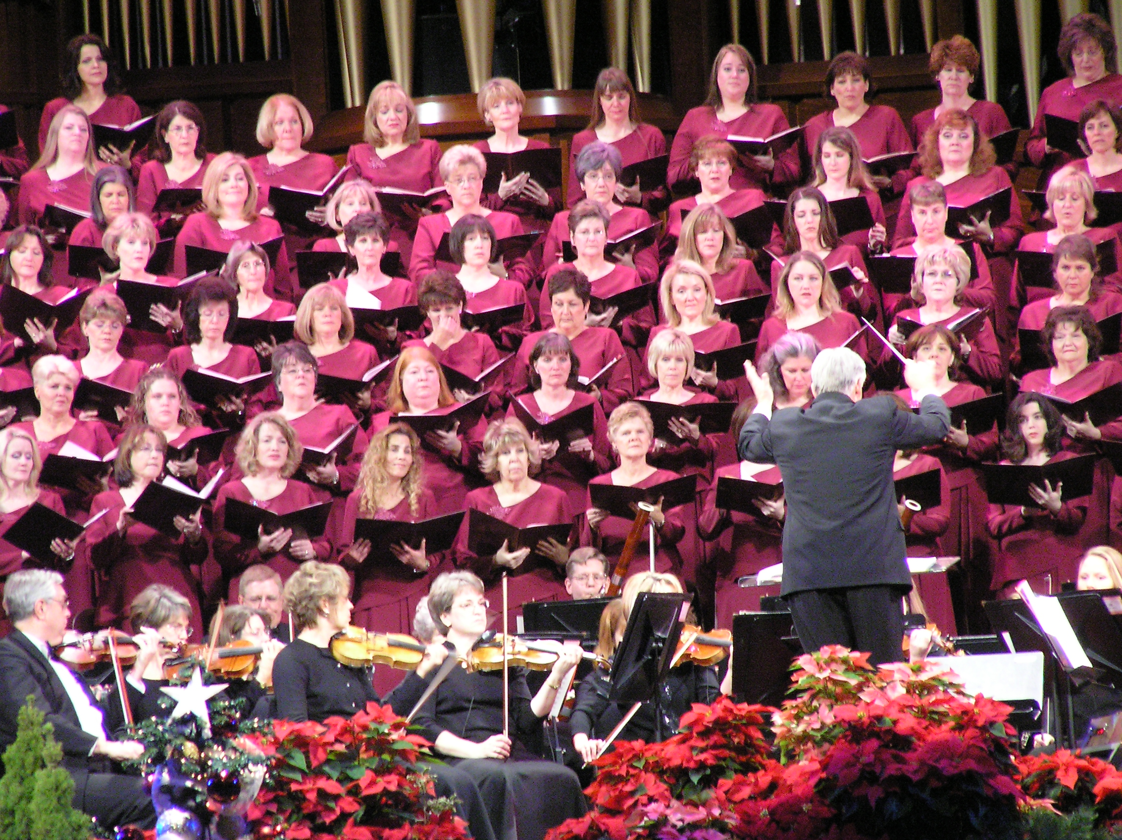 The Mormon Tabernacle Choir and Orchestra at Temple Square performing on December 3, 2005, in the LDS Conference Center under the direction of Craig Jessop. The choir is sponsored by The Church of Jesus Christ of Latter-day Saints, and is named after the Salt Lake Tabernacle, where it has performed for over a hundred years.